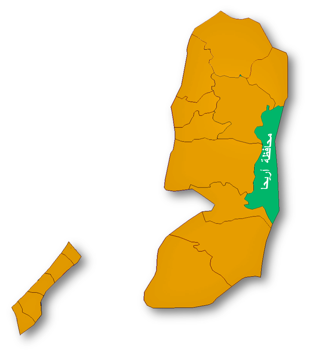 Map of the Palestinian Authorities showing the Governate of Jericho